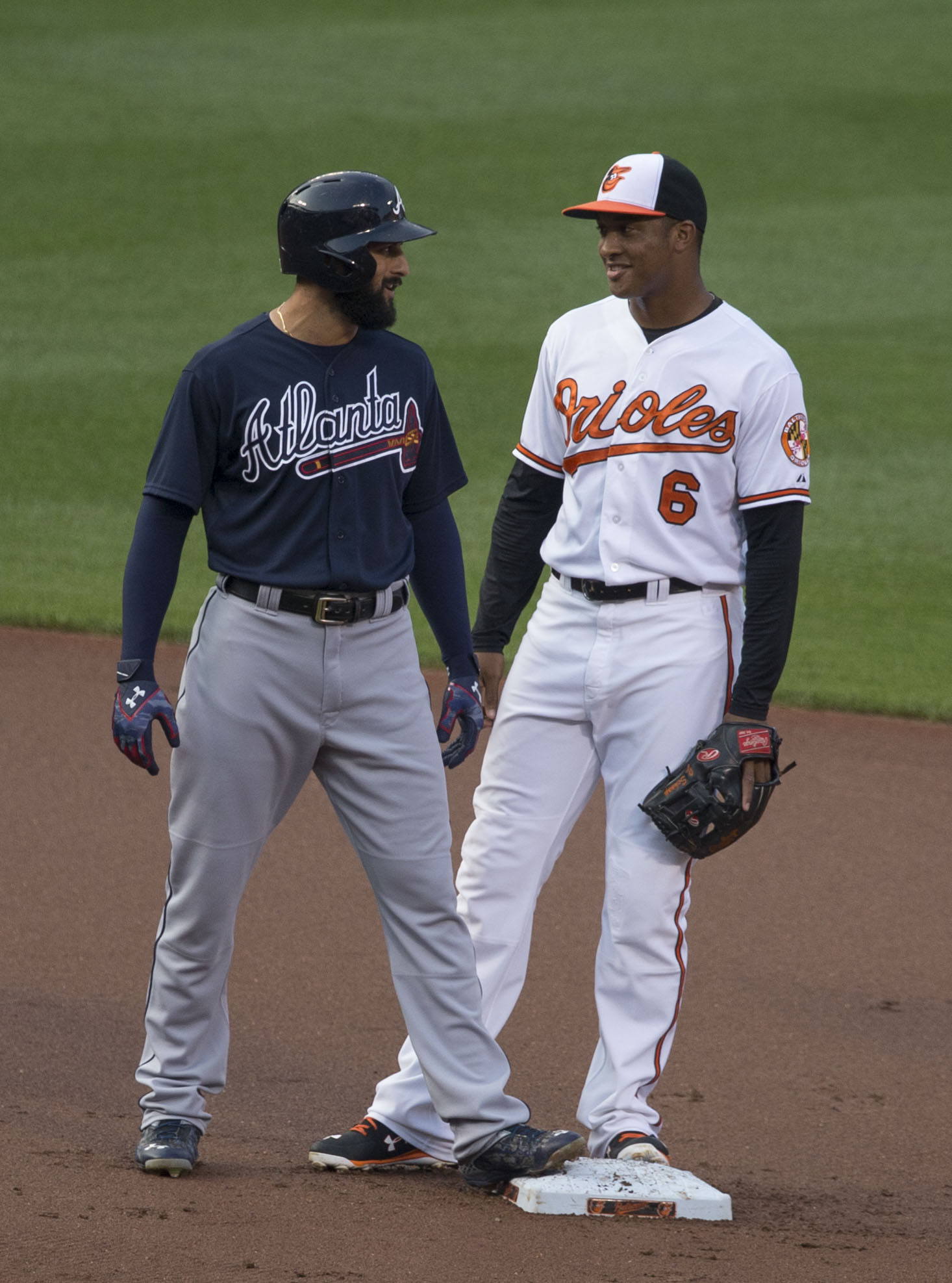 Nick Markakis (left) and Jonathan Schoop